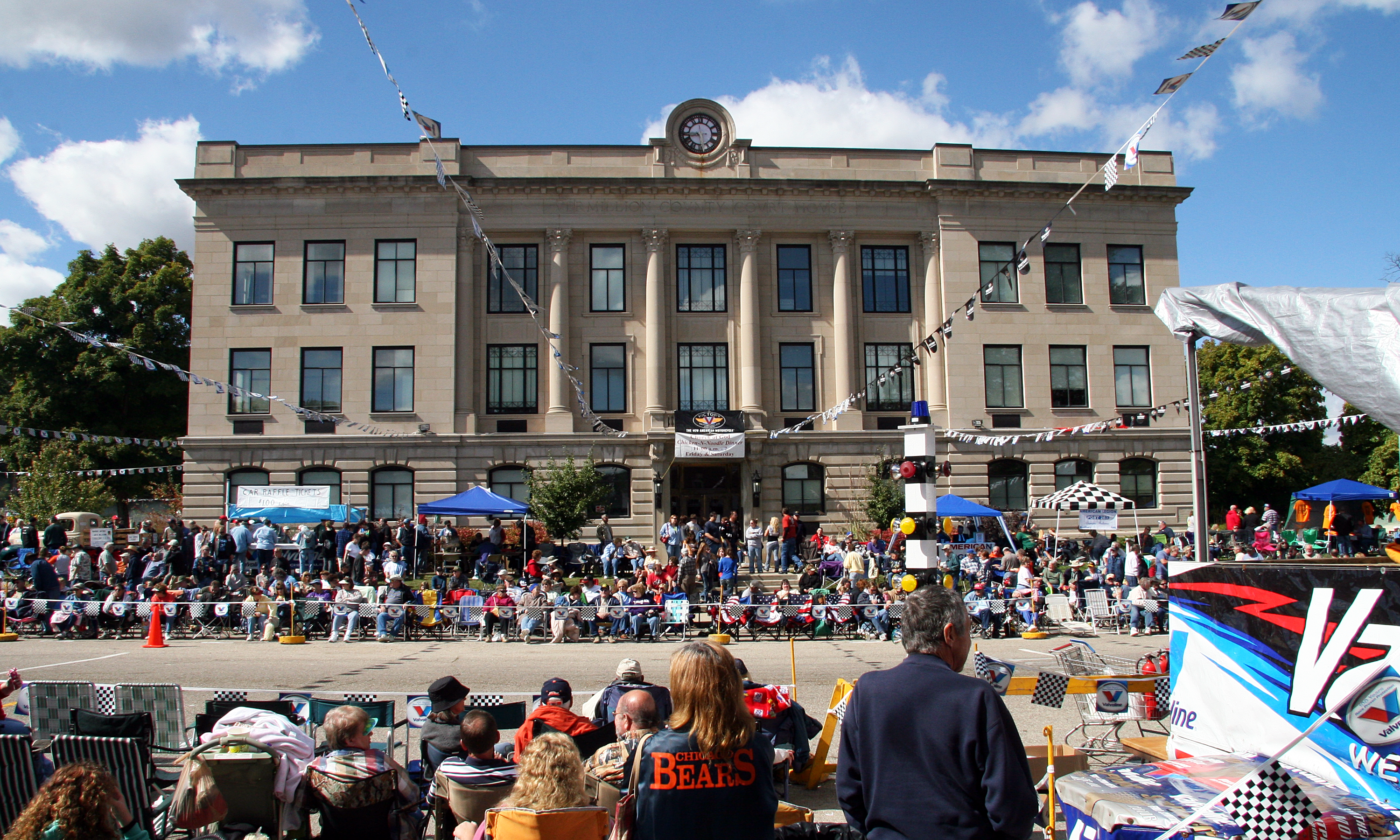 The east face of the Vermillion County Courthouse in Newport, Indiana, photographed from Main Street during the 2009 Newport Antique Auto Hill Climb.